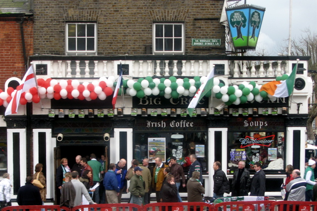 Match day, The Big Tree Tavern, Dorset Street, Dublin Taken on the Ireland versus England rugby match at Croke Park